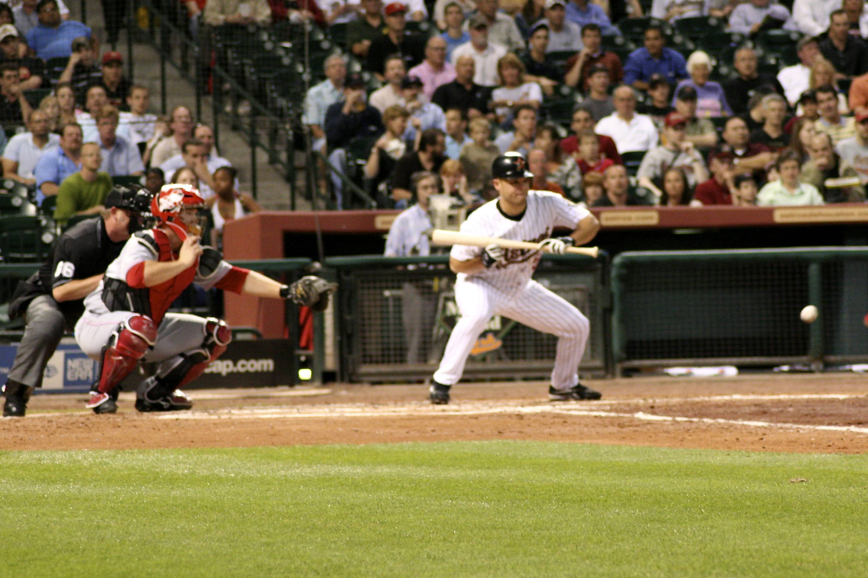 houston, tx